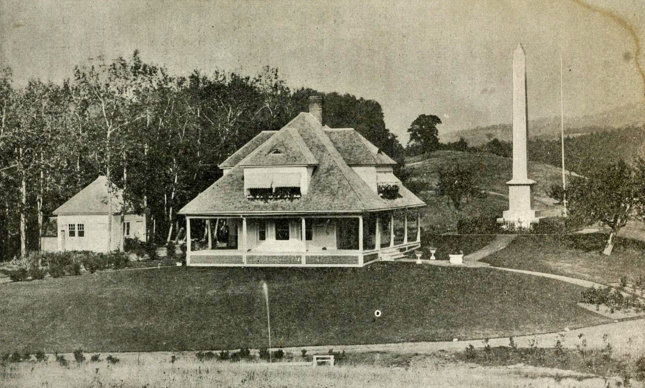 This is a photograph published in 1907 in the Improvement Era magazine. This depicts the Sharon, Vermont birthplace of Joseph Smith, Jr., founder of The Church of Jesus Christ of Latter-day Saints. It was dedicated in 1905 and remains in use by the LDS Church.